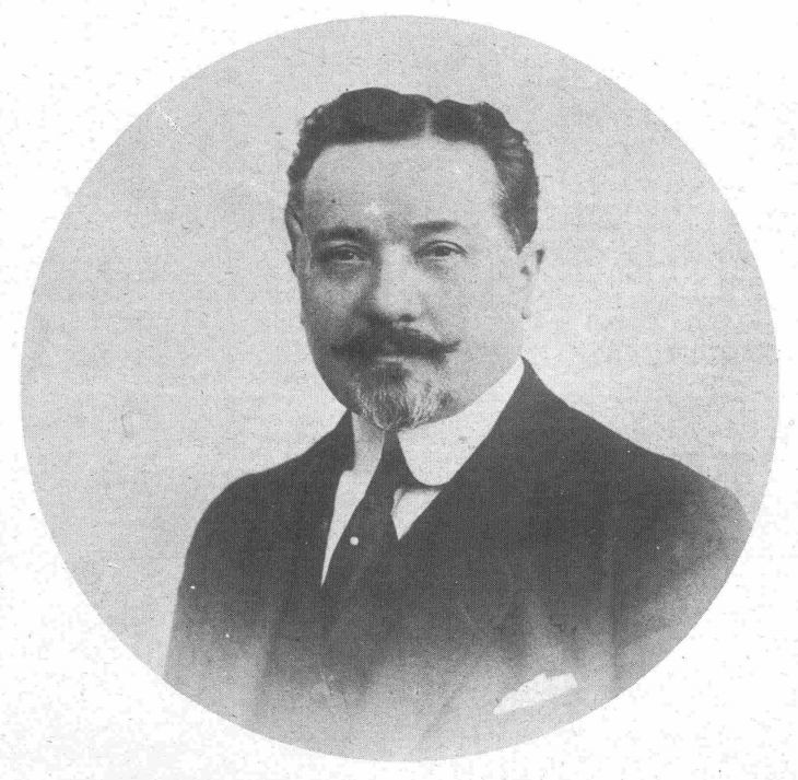 Nicolas Cito (1866-1949) around 1928.